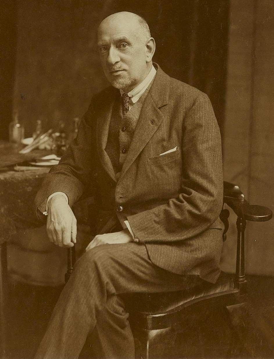 Dutch artist Marius Bauer (1867-1932)